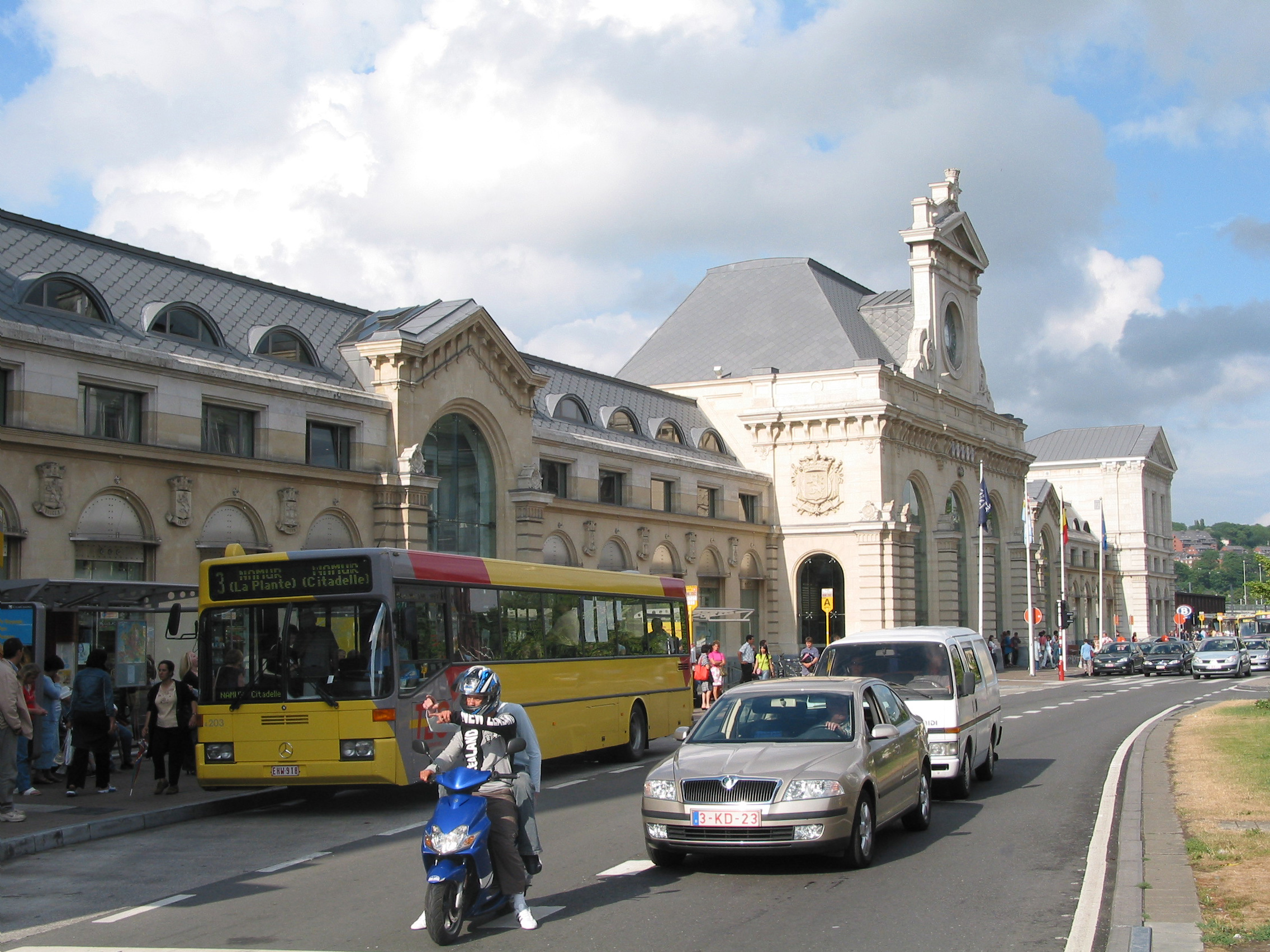 Namur (Belgium), the railway station.